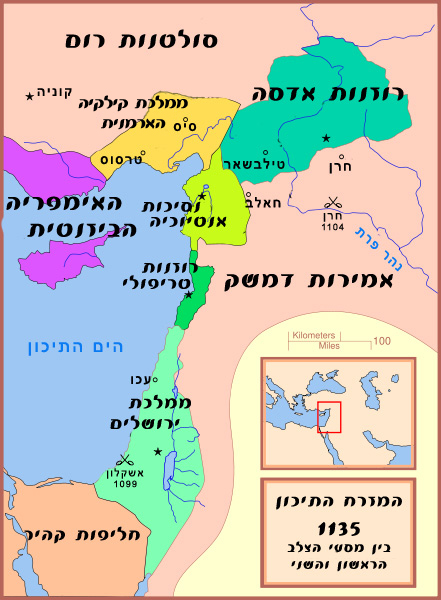 Map of Crusader States in the Middle East 1135